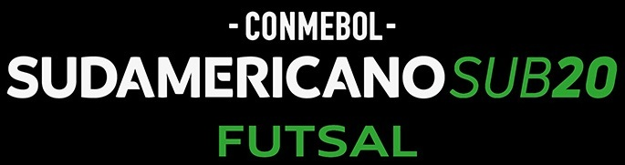 South American U-20 Futsal Championship